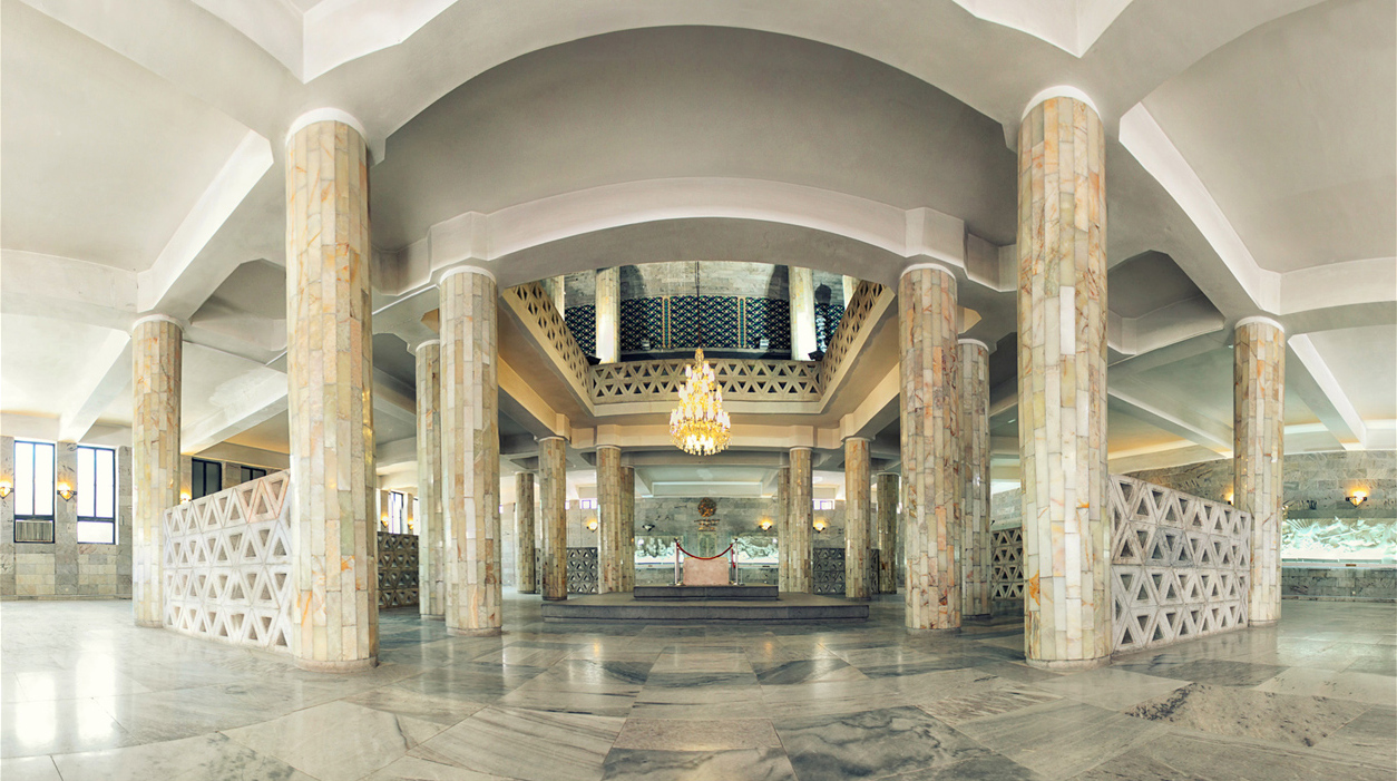 Mashhad_IRAN(ferdosi was one of greatest epic poets of iran)